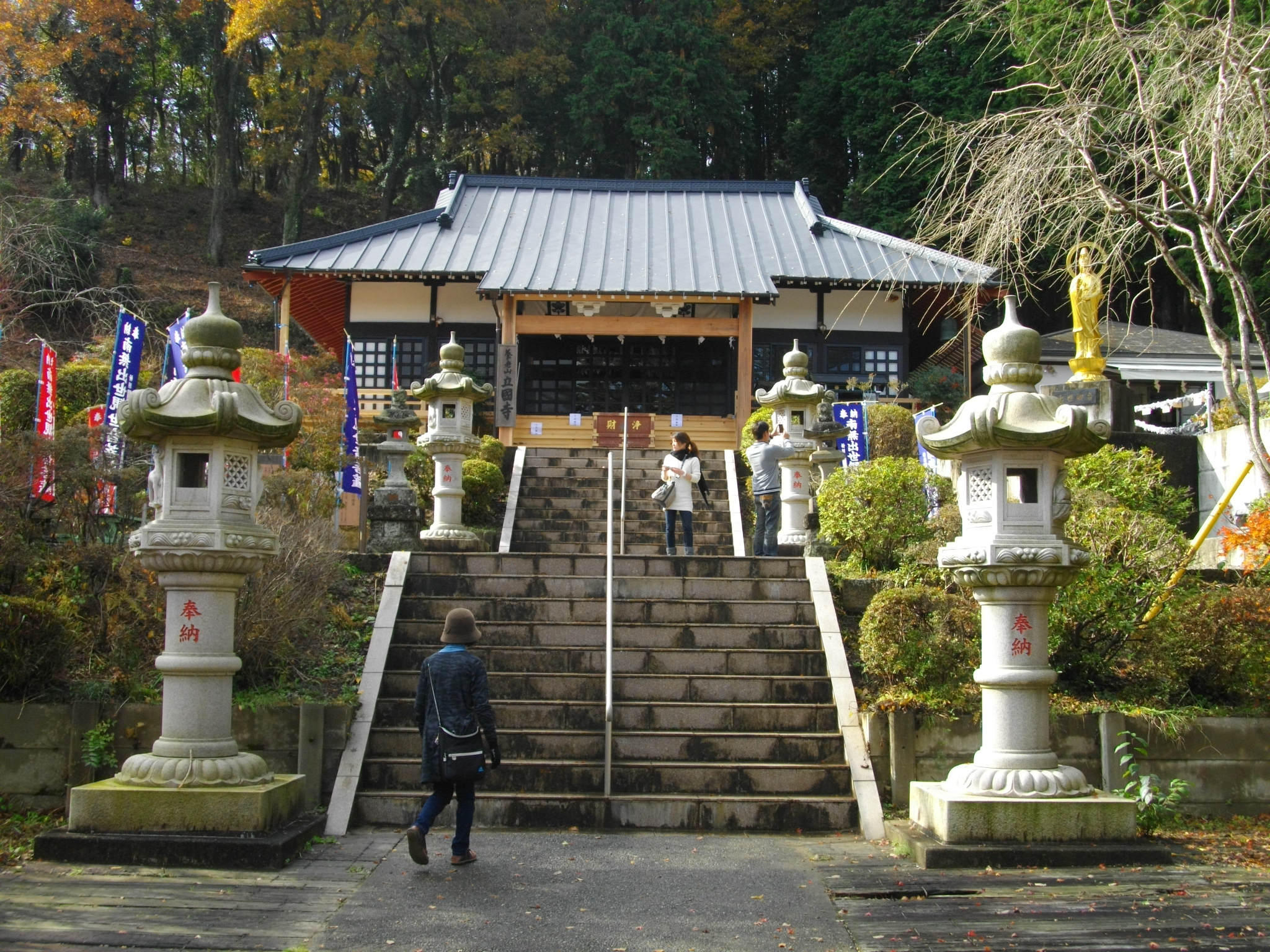 Rikkoku-ji